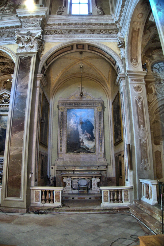 Chapel of St. Bernardine of Feltre and St. Peter of Alcantara